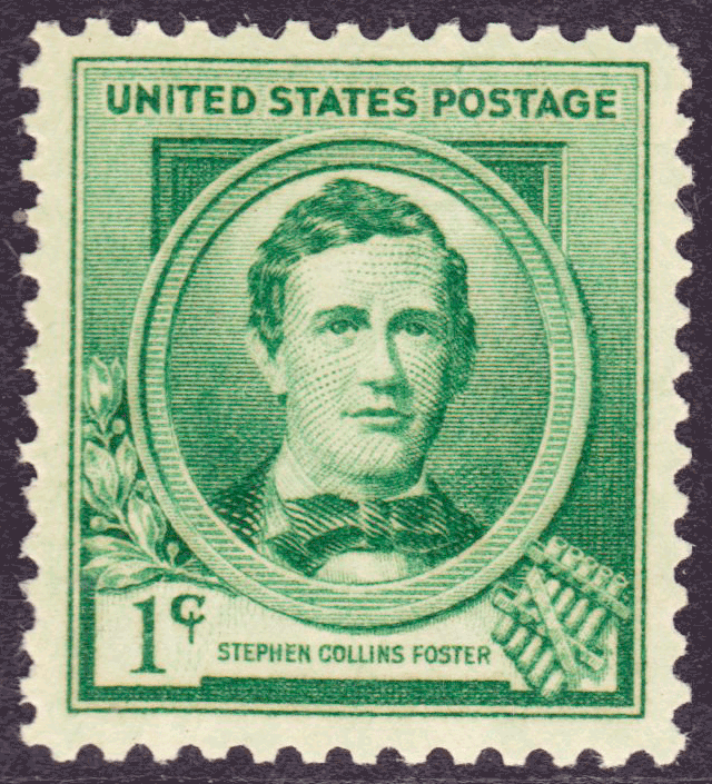 Individual stamp from the Famous_American_Series_of_1940.jpg